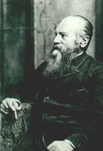 Col. John Cullmann, founder of Cullman, Alabama